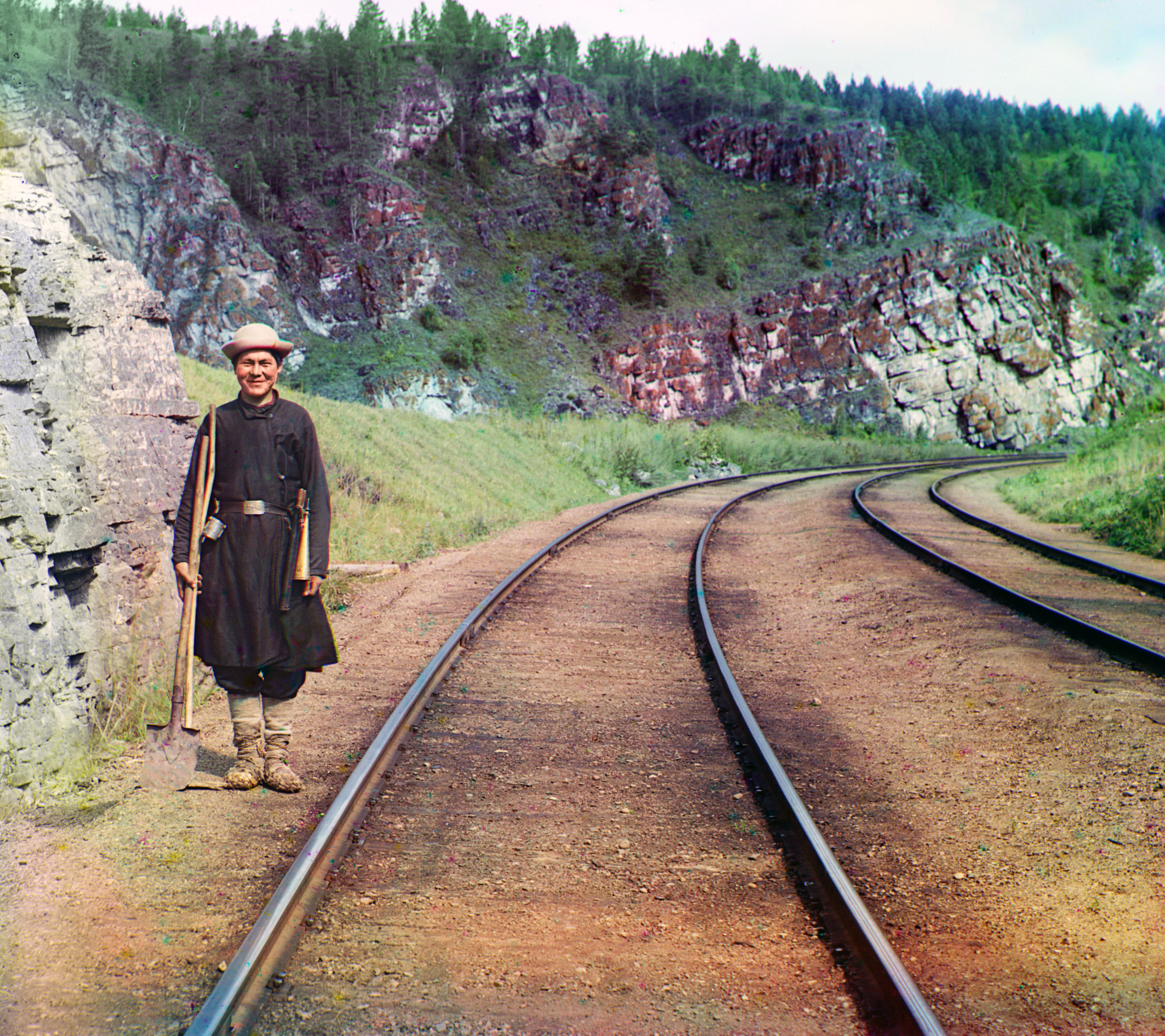 Bashkir switchman